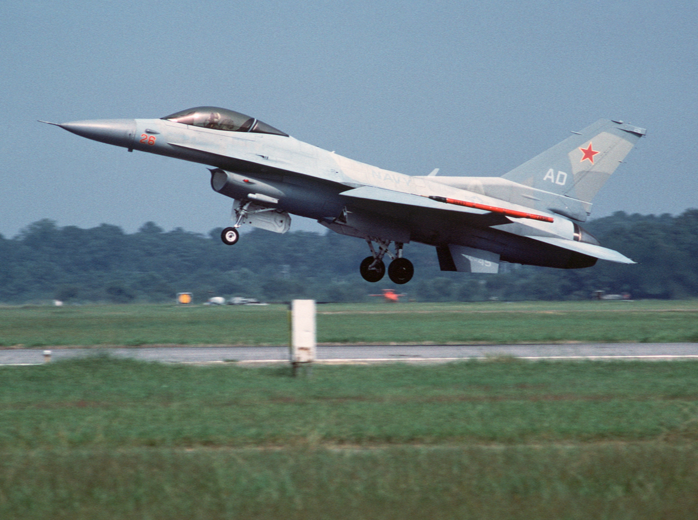 A U.S. Navy Fighter Squadron 45 (VF-45) General Dynamics F-16N Viper aircraft takes off from Naval Air Station Oceana, Virginia (USA).